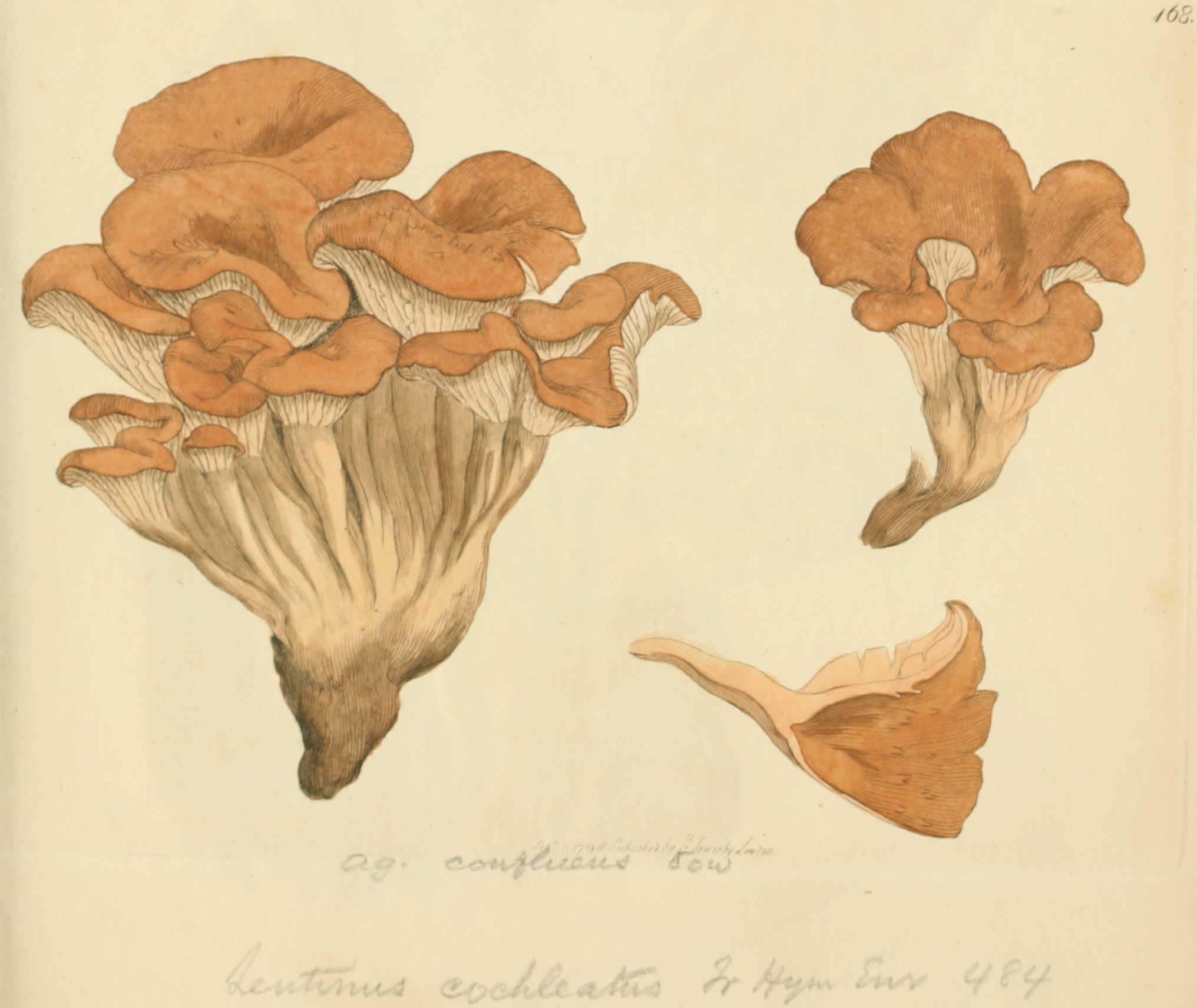 This is a plate from James Sowerby's Coloured Figures of English Fungi or Mushrooms.